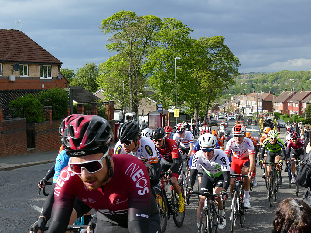 Close-up of the pack